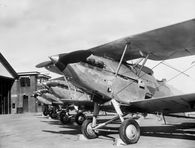 Hawker Demon aircraft of "B" Flight No. 1 Squadron RAAF on the tarmac at Laverton, Vic.